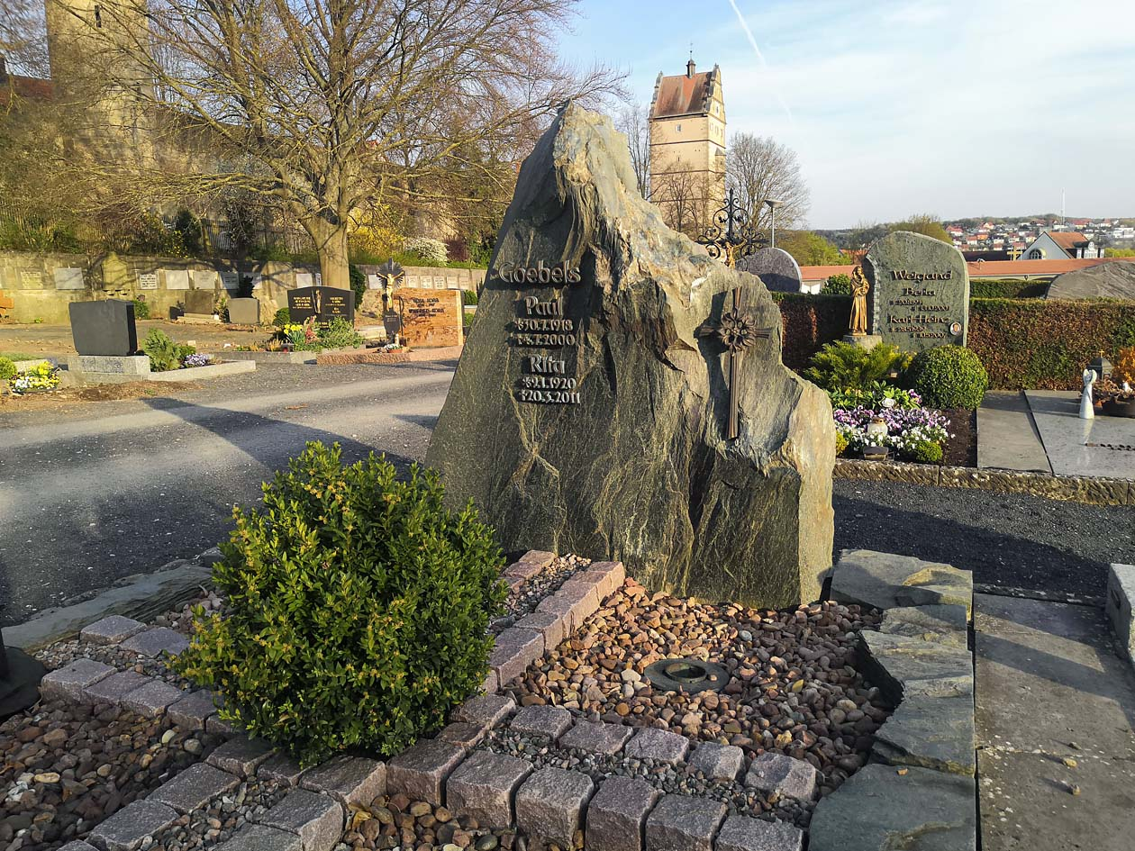 Tomb of the mayor Paul Goebels Bad Neustadt